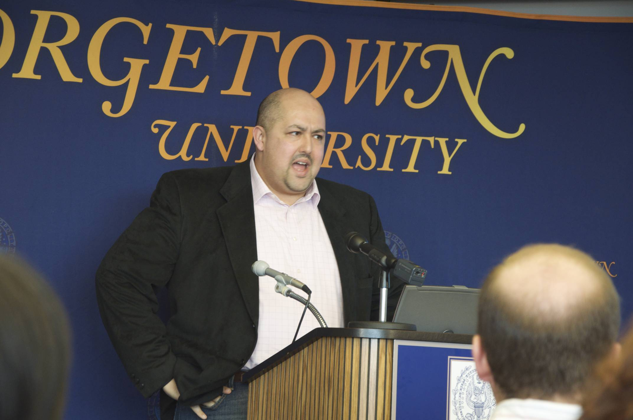 Siva Vaidhyanathan at Georgetown.